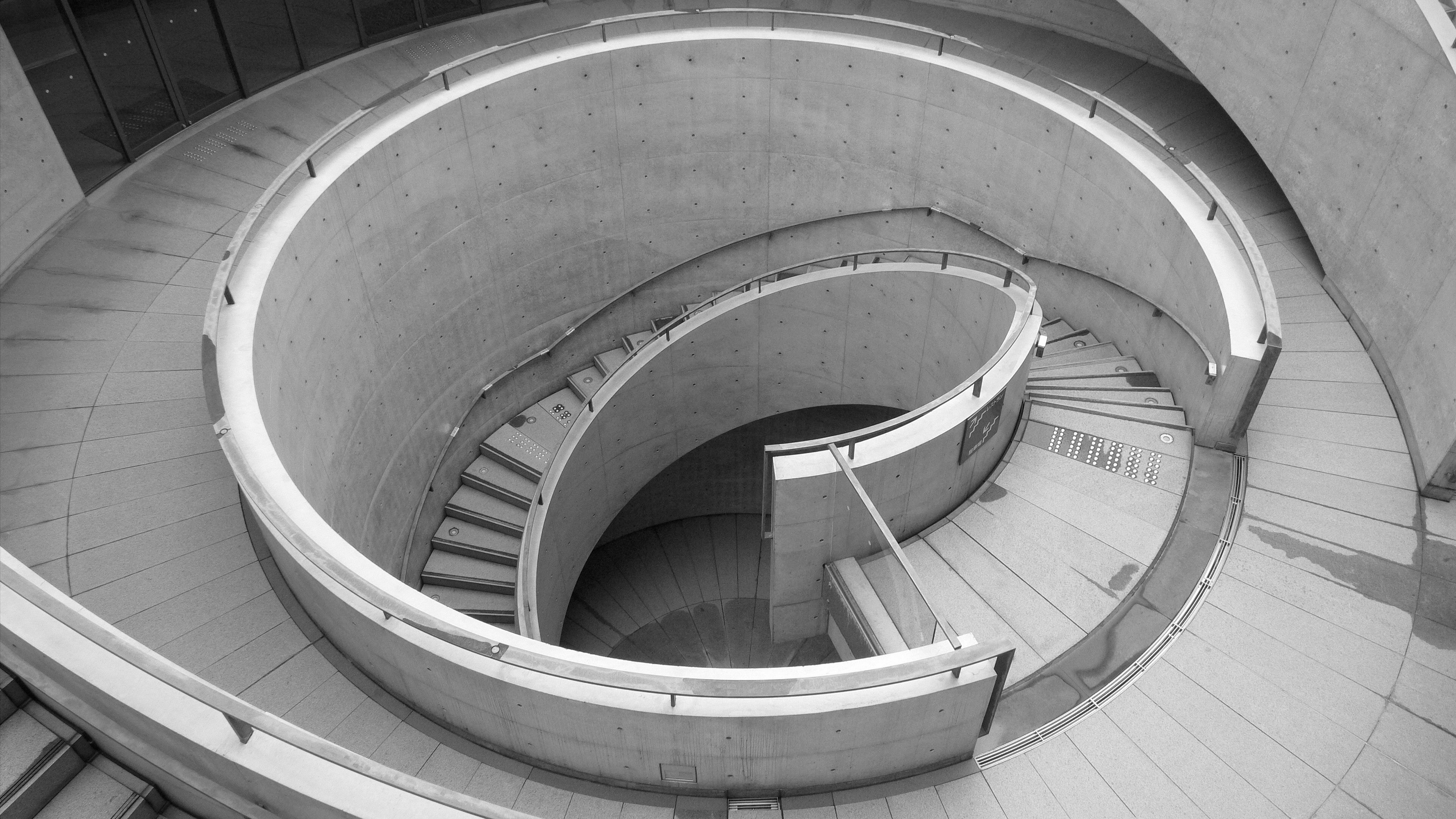 "Hyogo Prefectural Museum of Art" in Kobe, Hyogo prefecture, Japan